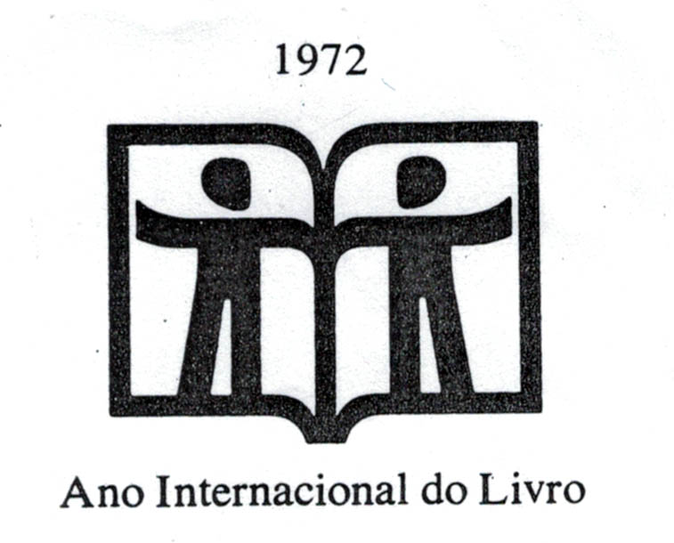 International Book Year logo